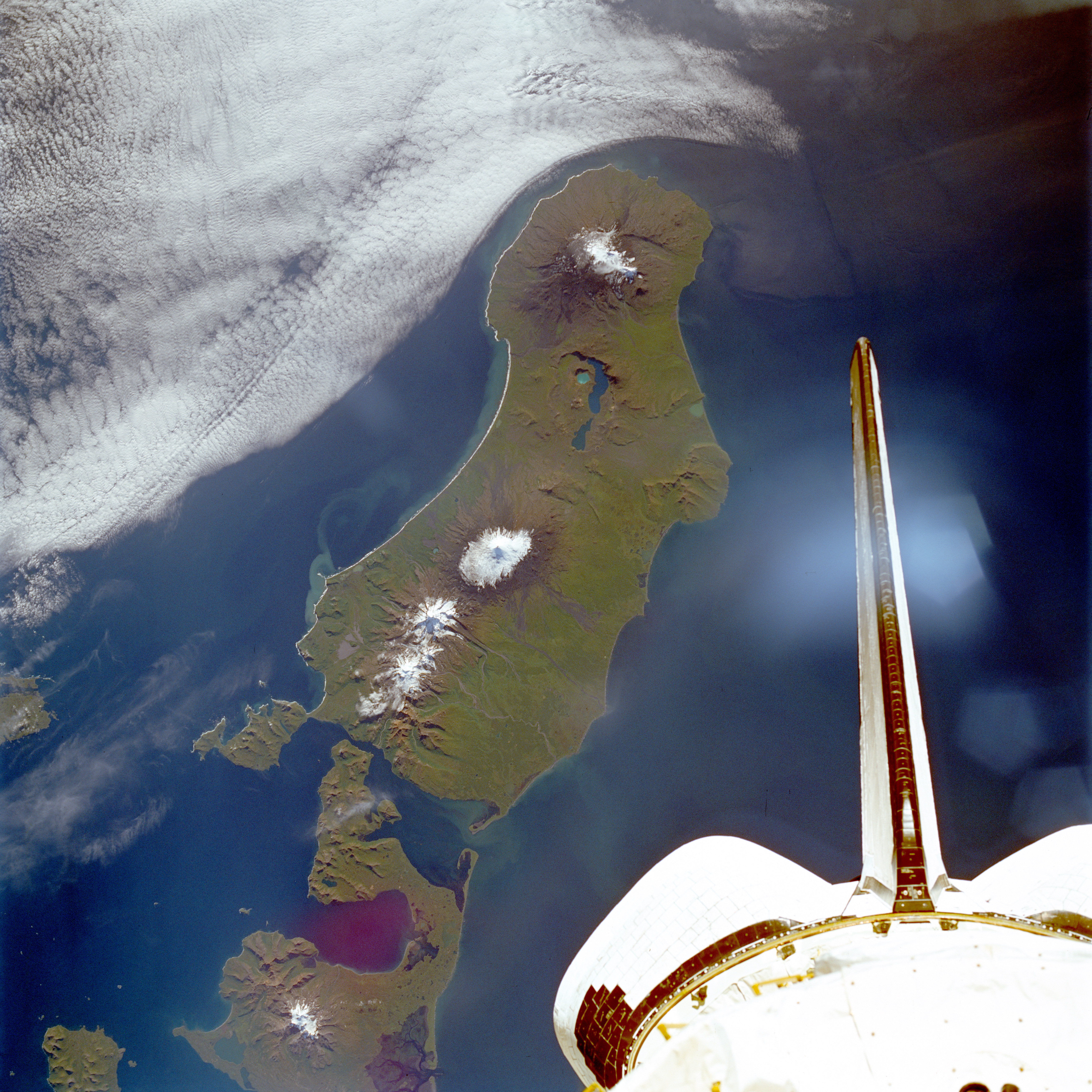 Unimak Island, Alaska, United States - September 1992 Seen in this southwest-looking, low-oblique photograph is Unimak Island, Alaska, the largest island in the Aleutian chain. The major volcano on the island (snow-capped peak at the center of the photograph), Shishaldin, rises approximately 9400 feet (2860 meters) and has been active during the last 175 years, with several eruptions occurring recently. The volcano is known locally as "Smoking Moses." At the southwestern end of the island is the snow-capped Pogromni Volcano. The blue lake situated in a large volcanic caldera, which can be seen midway between the Pogromni and Shishaldin volcanoes, is the result of a now extinct volcano that collapsed.